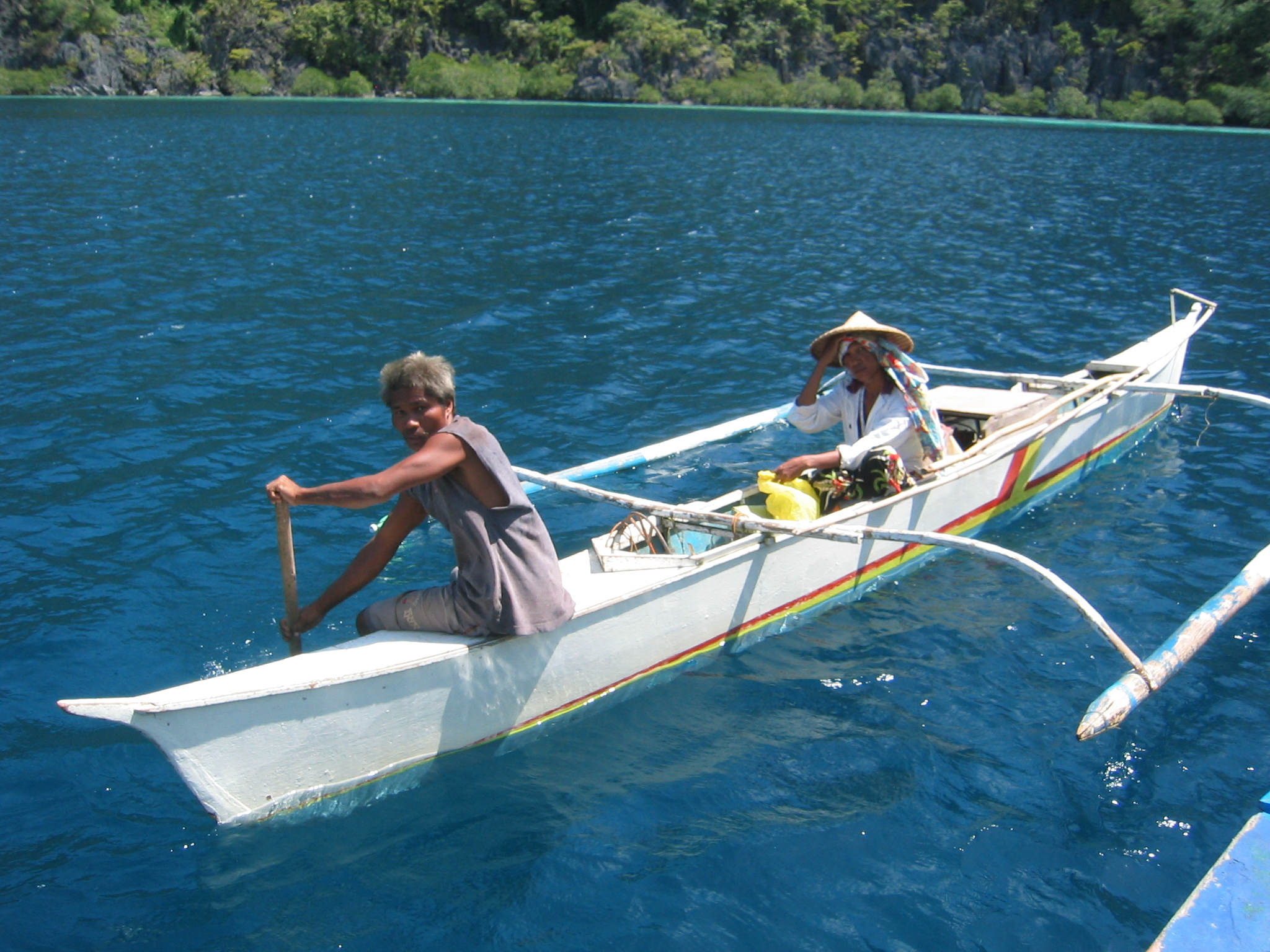 Tagbanua of Coron island.